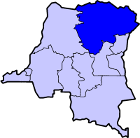 locator map showing a province of the Democratic Republic of Congo